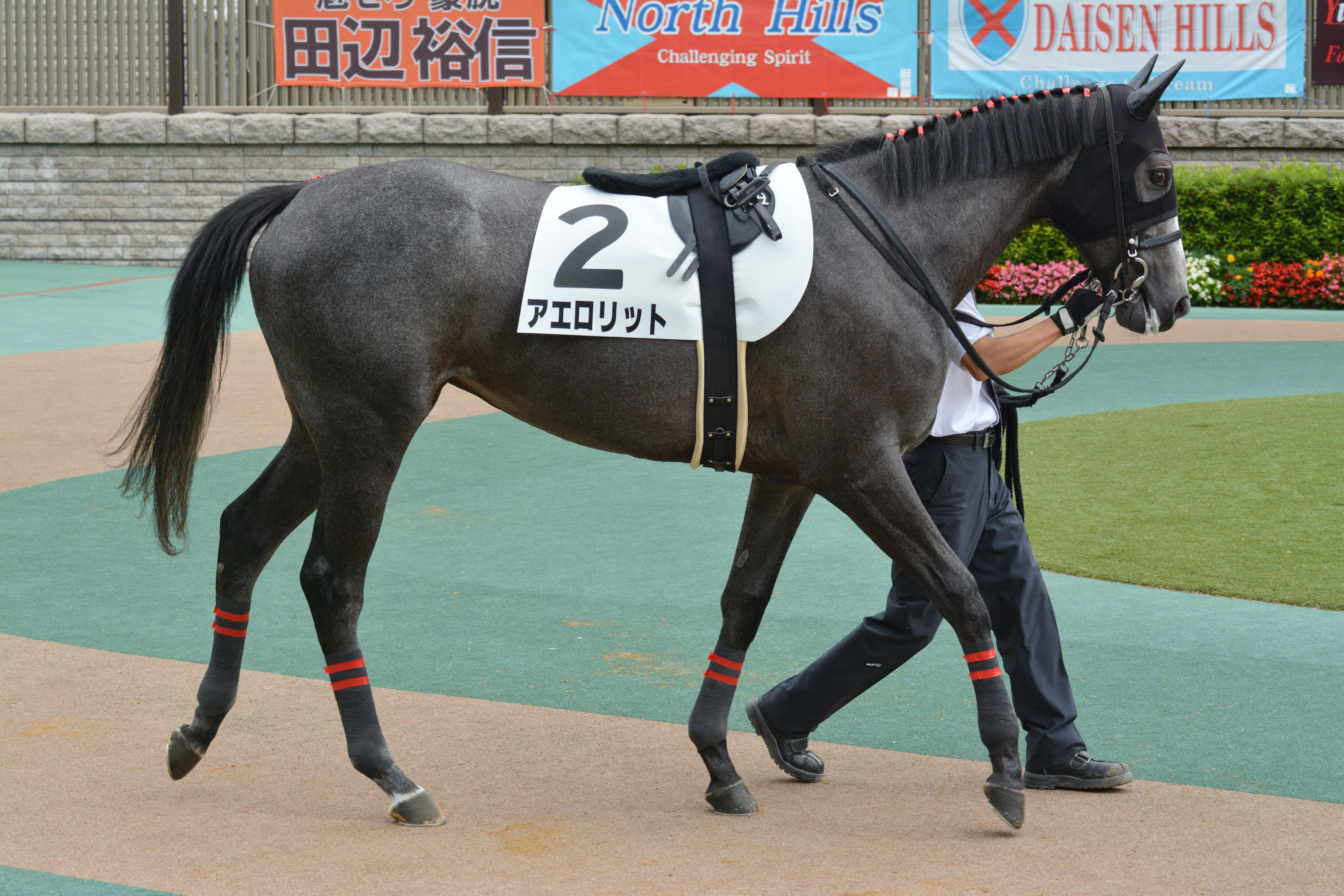 Japanese racehorse Aerolithe at Tokyo racecourse(2016-06-19).